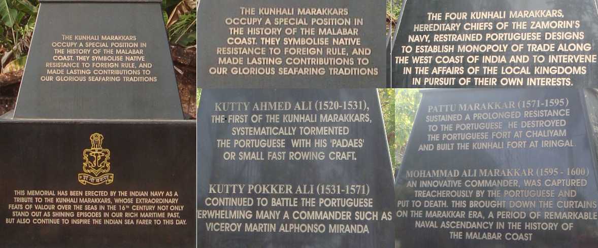 Inscriptions on the Marakkar Memorial erected by the Indian Navy in tribute to the Kunjali Marakkars